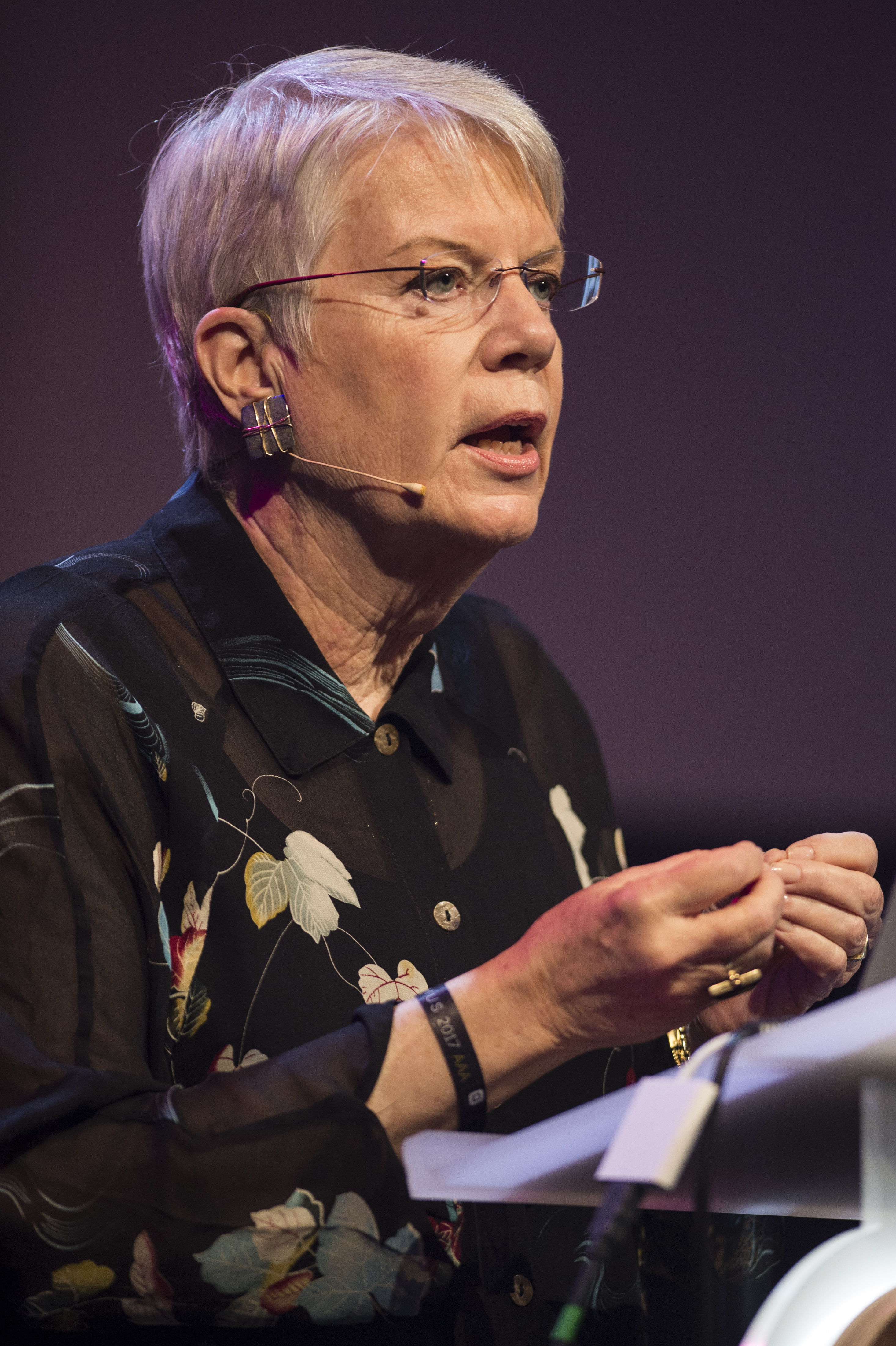 Trondheim 18-23 June 2017: The science festival Starmus IV in Trondheim, Norway. Hosted by Norwegian University of Science and Technology (NTNU).​ Trondheim 23.06.2017: Jill Tarter: Sufficiently Advanced Technologies: Indistinguishable from Magic, or from Nature?